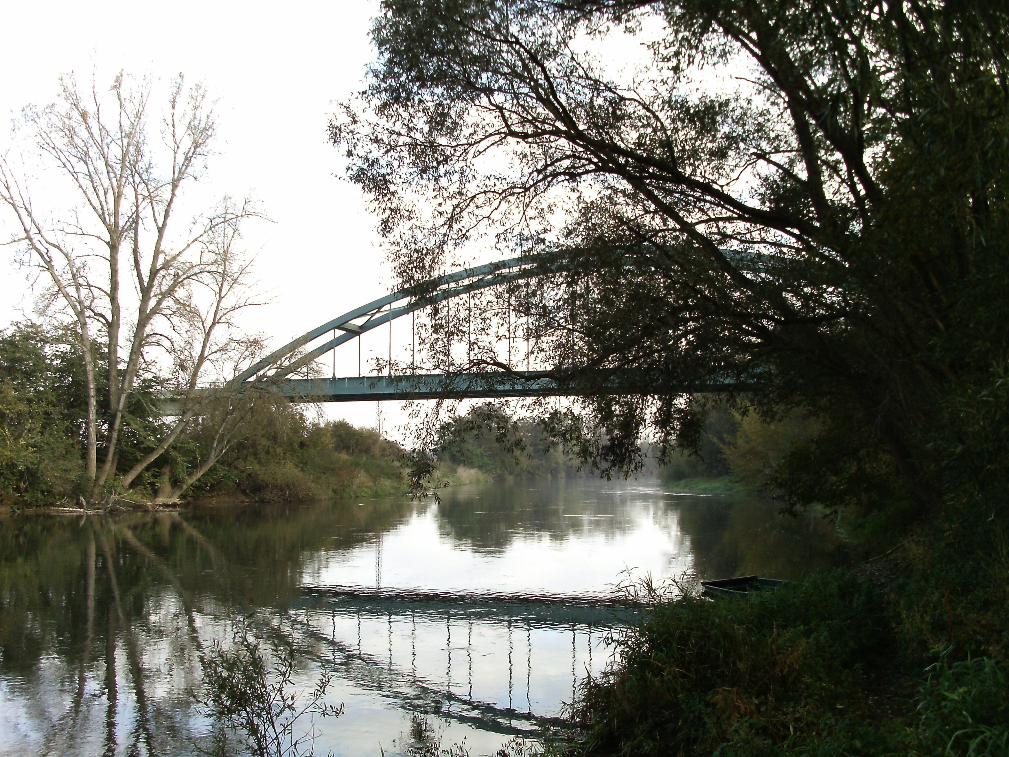 Saale bridge of the Grosskorbetha-Deuben railway line at Dehlitz (Lützen, district of Burgenlandkreis, Saxony-Anhalt)